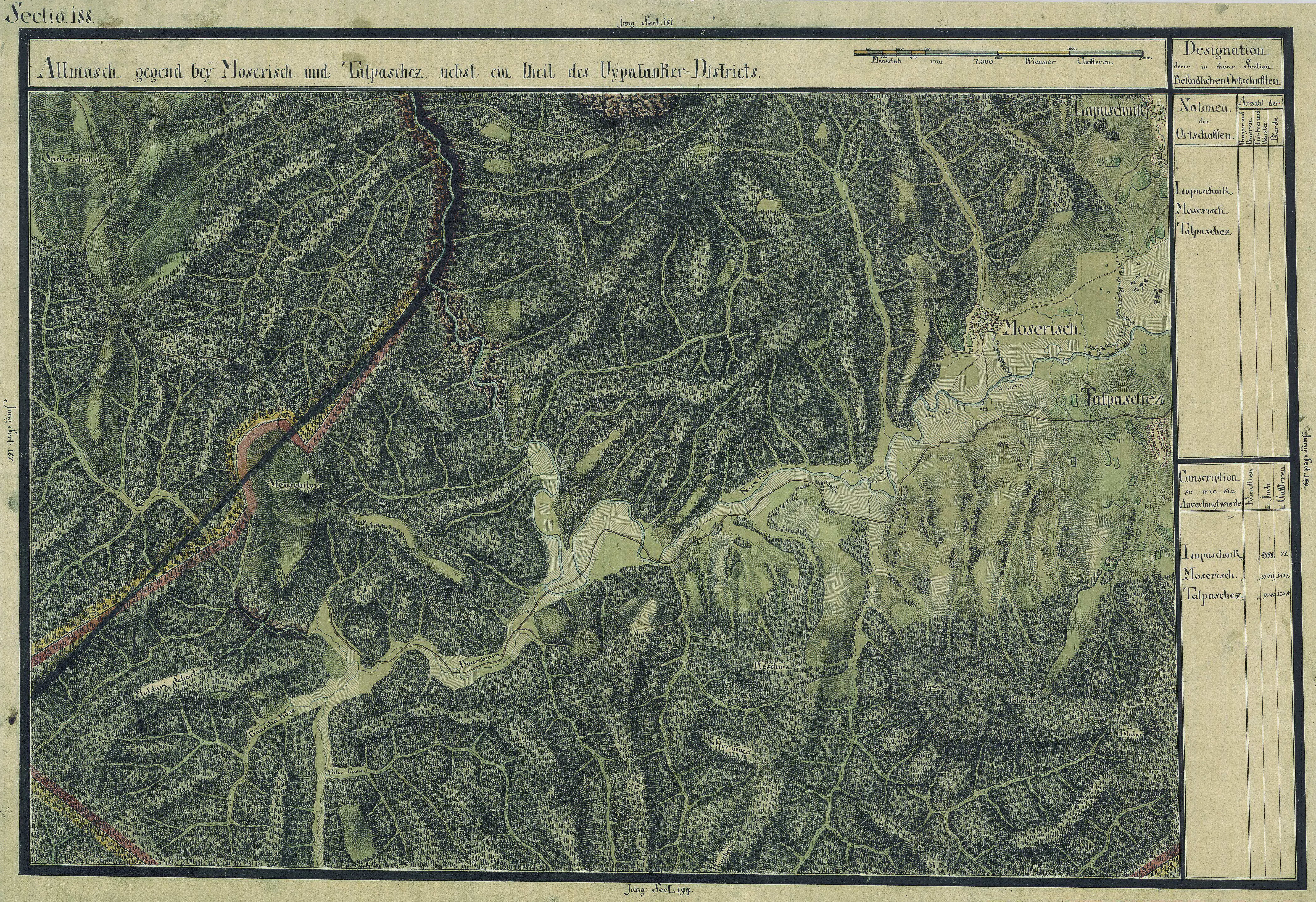 The Banat region in the cadastral maps: Josephinische Landesaufnahme, 1769-72. Josephinische Landaufnahme pg188